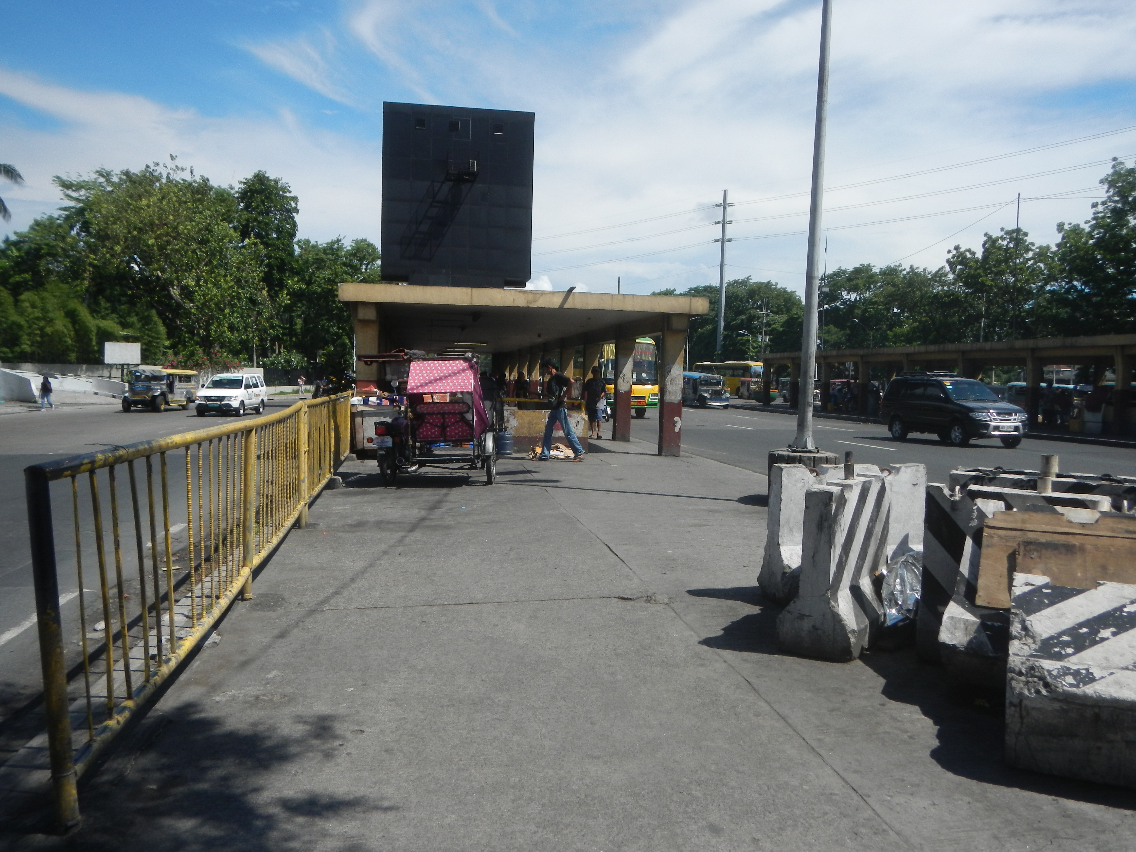 Rehabilitation and Conservation of the Manila Metropolitan Theater Phase I Liwasang Bonifacio Henry W. Lawton Liwasang Bonifacio East Overpass Plaza Henry Ware Lawton (1843-1899) 1970's Lawton Plaza was officially changed to Liwasang Bonifacio Sta. Limit 1+630 Load Limit 15 metric tons Douglas MacArthur statue MacArthur Bridge (Manila) Padre Burgos Avenue Manila Metropolitan Theater Rehabilitation and Conservation of the Manila Metropolitan Theater Phase I P 266.776 million February 8, 2017 to February 8, 2018 Ermita Parián_(Manila) Parian de Arroceros Intramuros Park n' Ride (Manila Multimodal Terminal) 14°35'43"N 120°58'51"E Plaza Lawton 14°35'36"N 120°58'46"E Ermita (Barangay 659-A) Barangays 659, 659-A, 663 and 663-A, Zone 71, District V, City of Manila Central Terminal LRT Station (in Legislative districts of Manila Barangays 659, 659-A, 663 and 663-A, Zone 71, District V, Barangays 660, 661, 662 & 664, District V, Ermita, Manila, City of Manila (Note: Judge Florentino Floro, the owner, to repeat, Donor Florentino Floro of all these photos hereby donate gratuitously, freely and unconditionally all these photos to and for Wikimedia Commons, exclusively, for public use of the public domain, and again without any condition whatsoever).